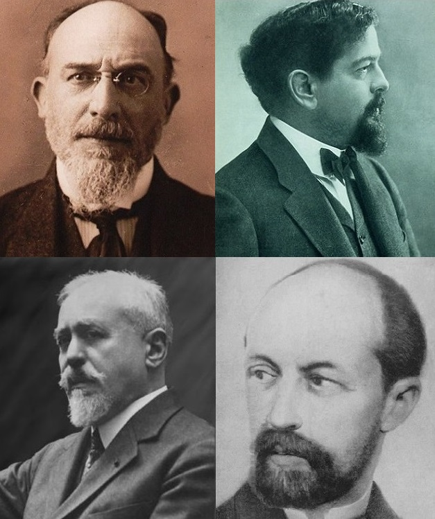 Montage of Public Domain images from Wikimedia Commons